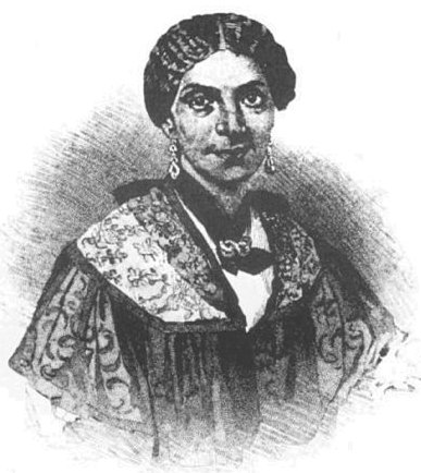 Mary S. Peake